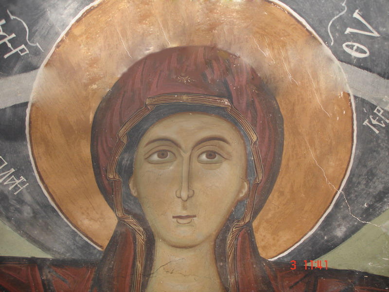 Trigoniko Delino St Mary Church Fresco